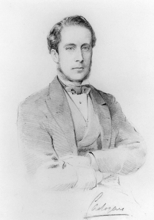 Portrait of George Cadogan, 5th Earl Cadogan